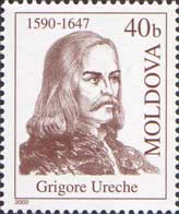 Stamp of Moldova